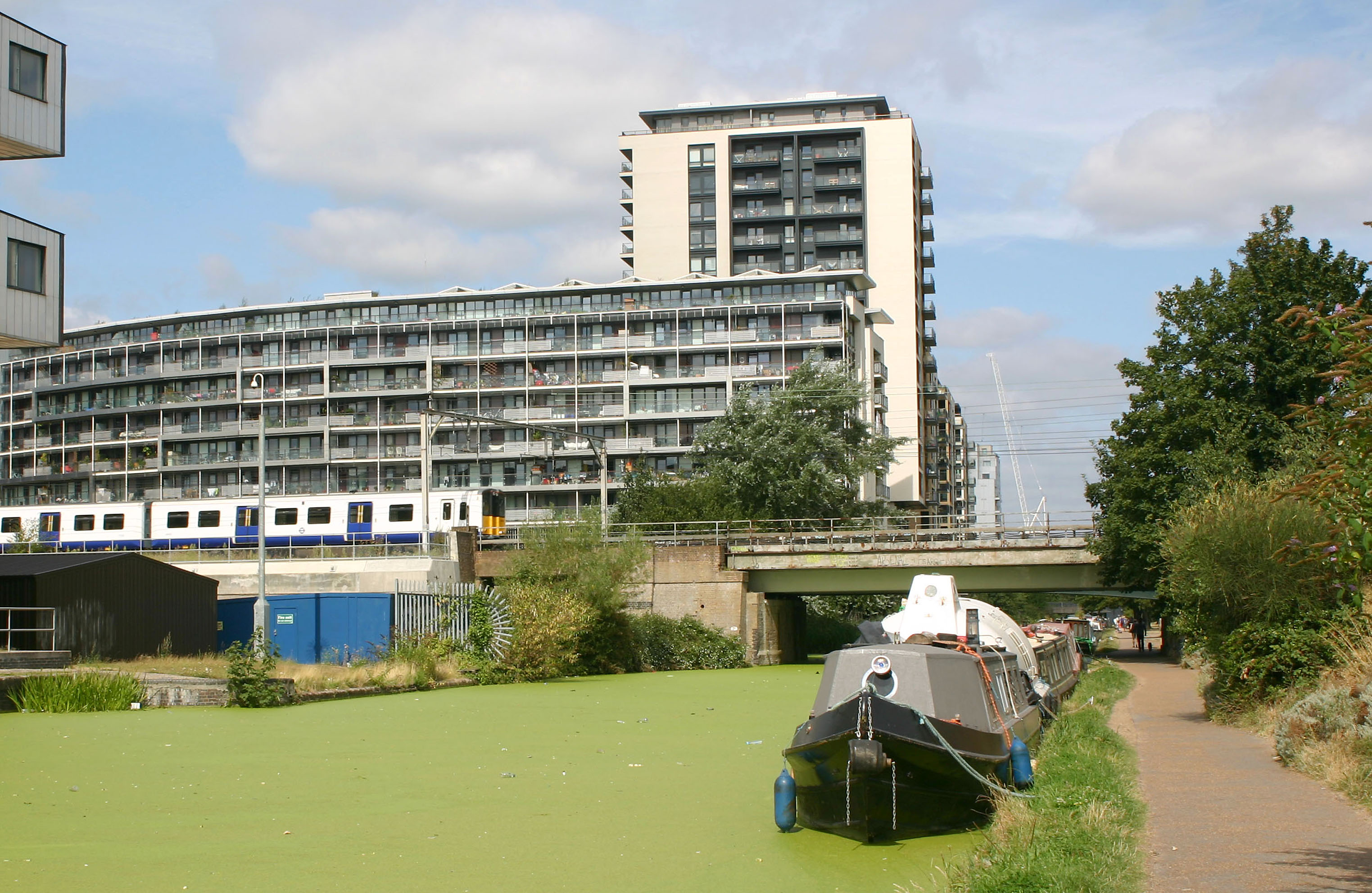 Cyanobacteria on Regent's Canal